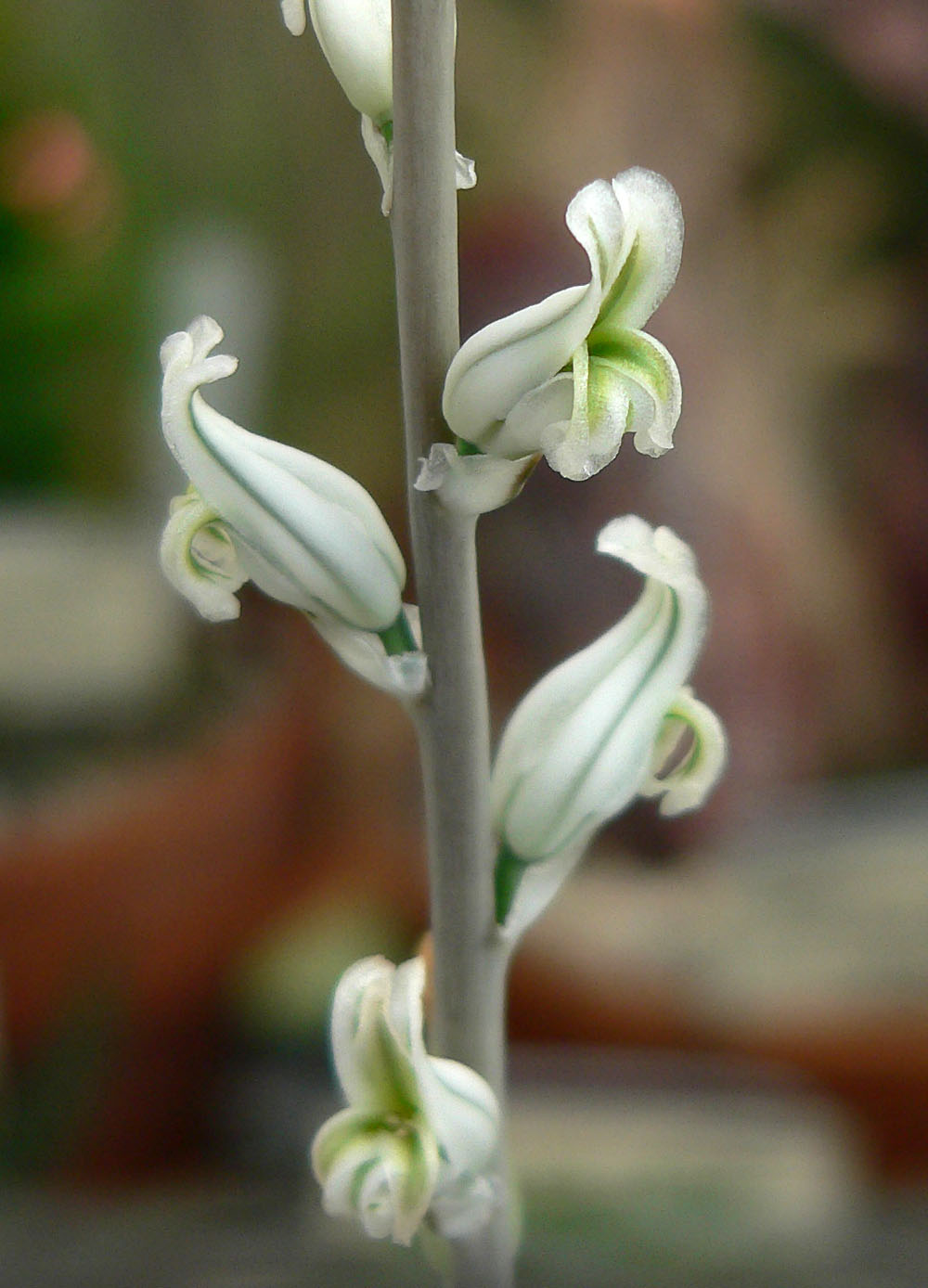 Haworthia emelyae var. emelyae at the University of California Botanical Garden, Berkeley, California